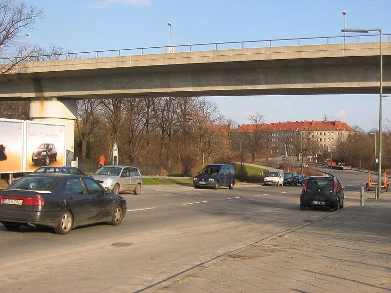 Teilestraße in Berlin-Tempelhof, east part.